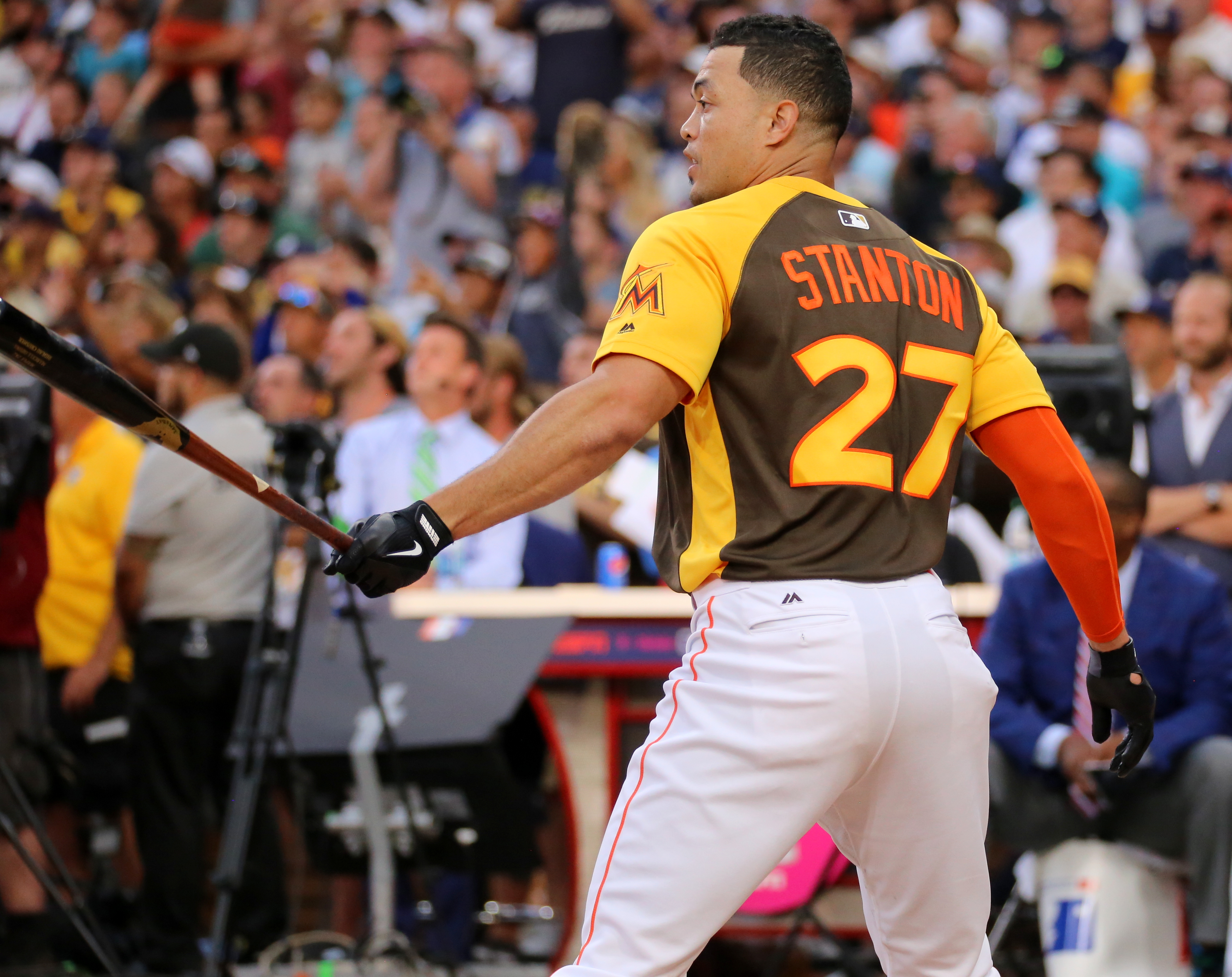 Giancarlo Stanton competes in the final round of the 2016 T-Mobile #HRDerby.